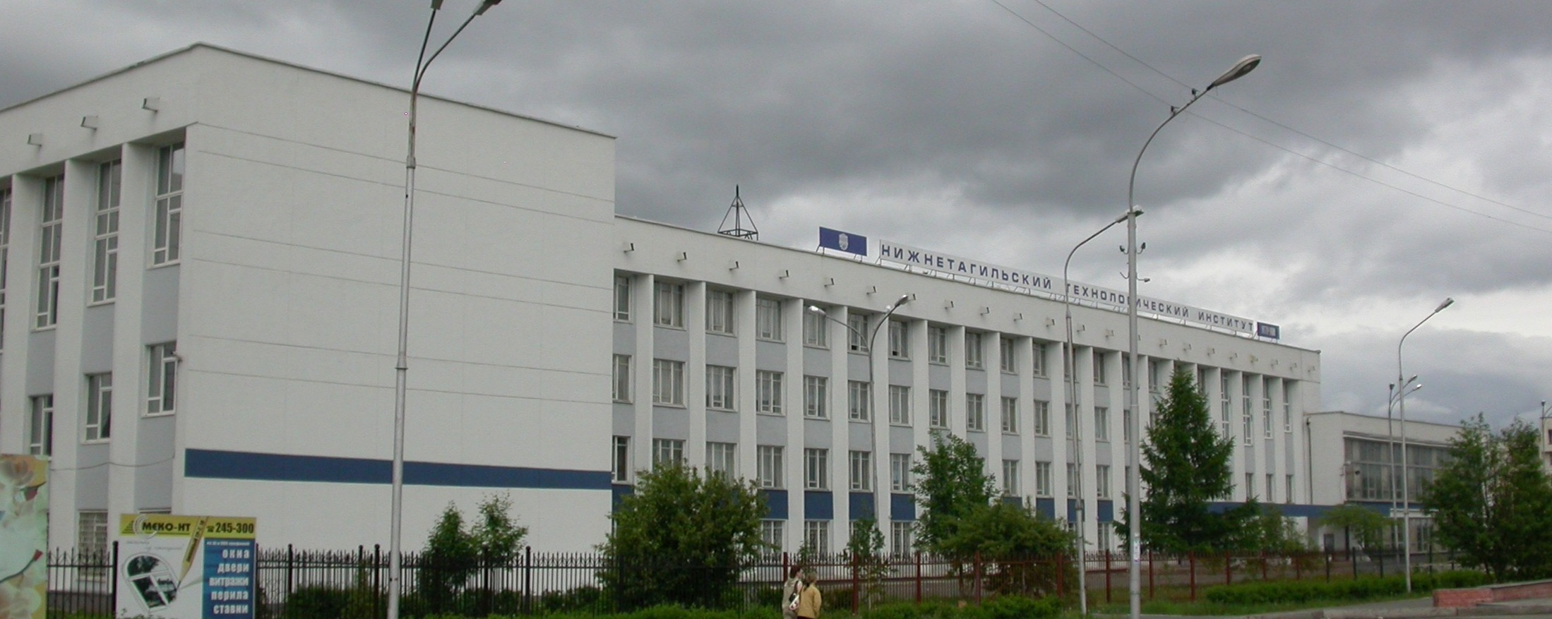 Photo of the main front edifice of the Nizhniy Tagil Technological Insitute located in Nizhniy Tagil, Sverdlovsk Oblast, Russia. Photographed by Michael V. Pelletier on June 11, 2006. pozdrav leopard kosovo